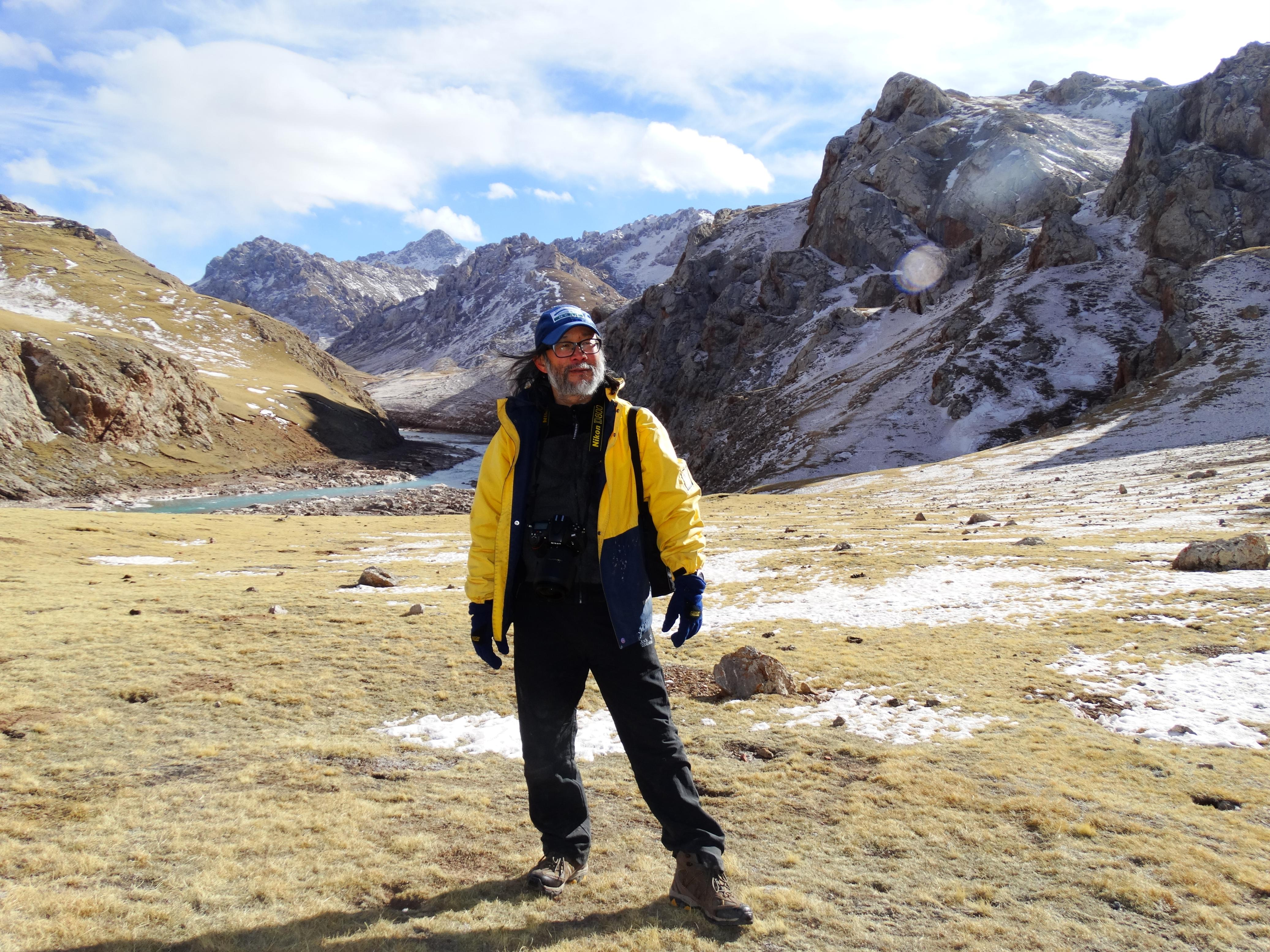 the president of the Green-River NGO